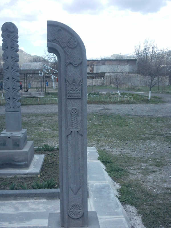 Այբբենարան-ամալիրի`Վռամշապուհ թագավորին խորհրդանշող կամարը Հեղինակ` Իվան Սիմոնյան